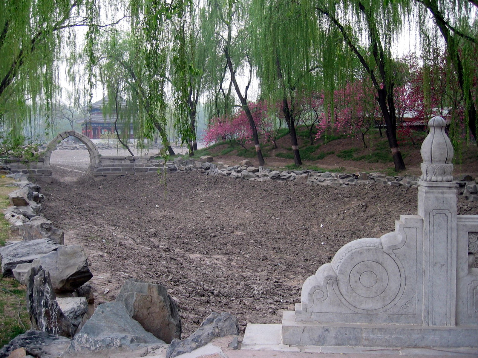 Photograph of a dry lake bed in the Old Summer Palace in Beijing, China. The picture was taken on April 23, 2005 by Rolf Müller. The lakes had been dried for coating their beds with a membrane to prevent water seepage, at the time when the picture was taken, an environmental assessment of the measure was underway.